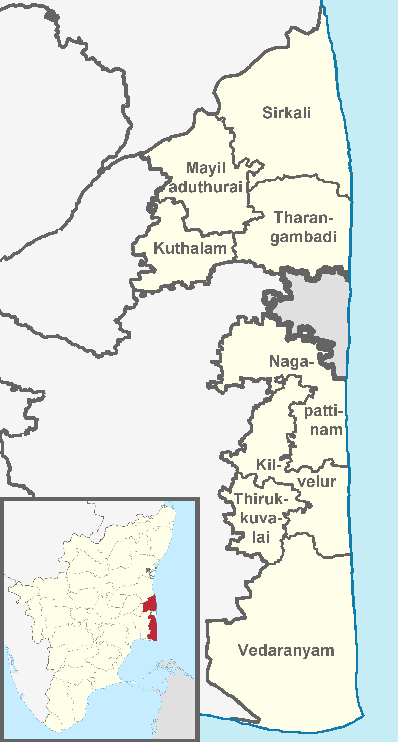 Taluks (sub-districts) of Nagapattinam district (Tamil Nadu, India)